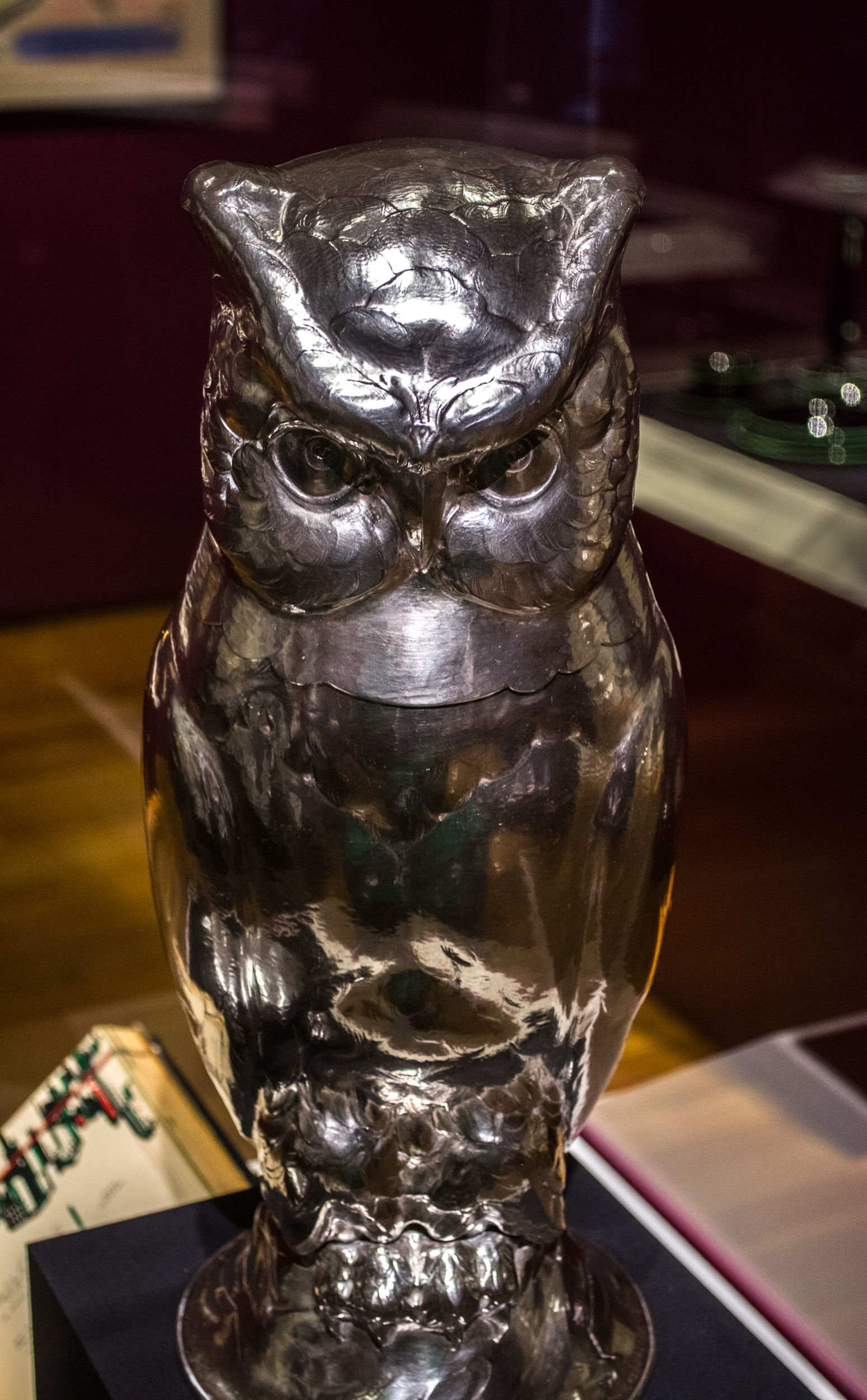 Owl cocktail shaker on display as part of the "Jazz Age" exhibit at the Cleveland Museum of Art in Cleveland, Ohio, in the United States. Peer Smed (1878-1943) was born Peer Schmidt in Copenhagen. The son of a blacksmith, he became an expert metalcrafter and produced objects in the Art Nouveau style. He became so famous that he designed silver pieces for the royal families of Denmark and Sweden. Smed visited America from 1903 to 1907. After returning briefly to Denmark, he moved permanently to New York City in 1909, where he started his own studio. He worked in a wide range of metals, including gold, silver, iron copper, and bronze. Cocktail shakers disguised as sculpture were popular during Prohibition. This silver shaker was made by Smed in 1931. CMAJazzAge